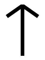 runic letter tiwaz